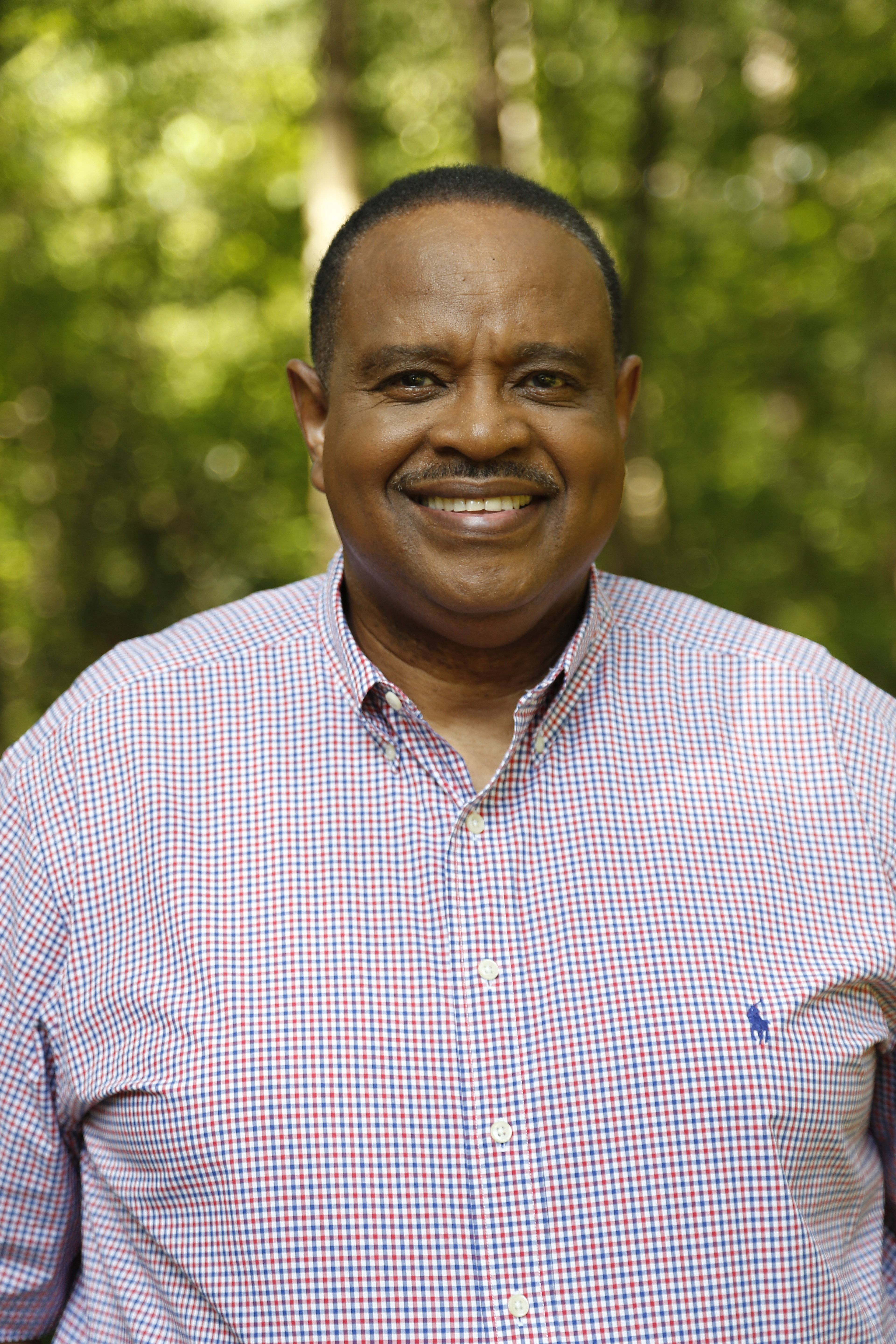 Headshot of Al Lawson